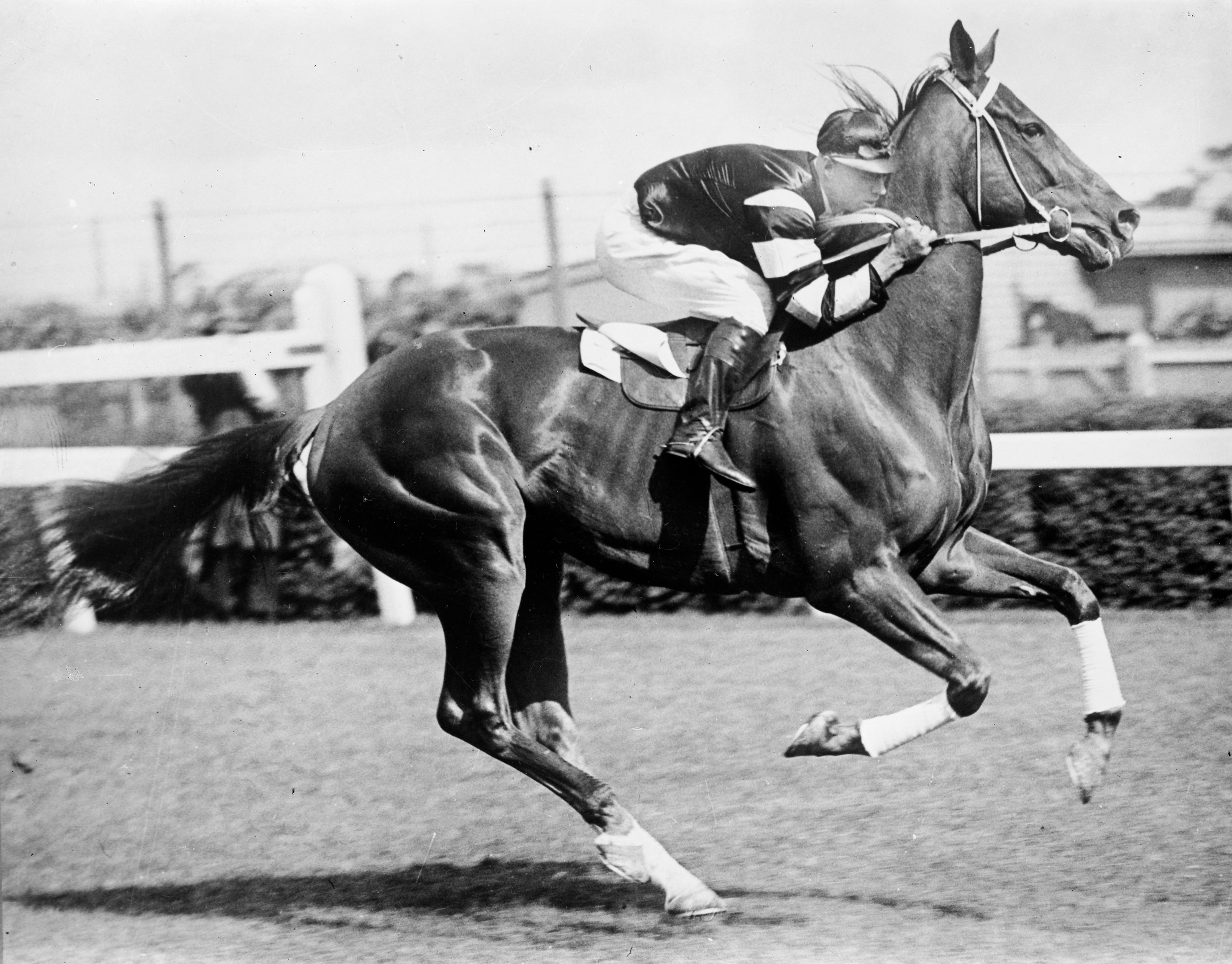 Phar Lap with jockey Jim Pike riding at Flemington race track c 1930